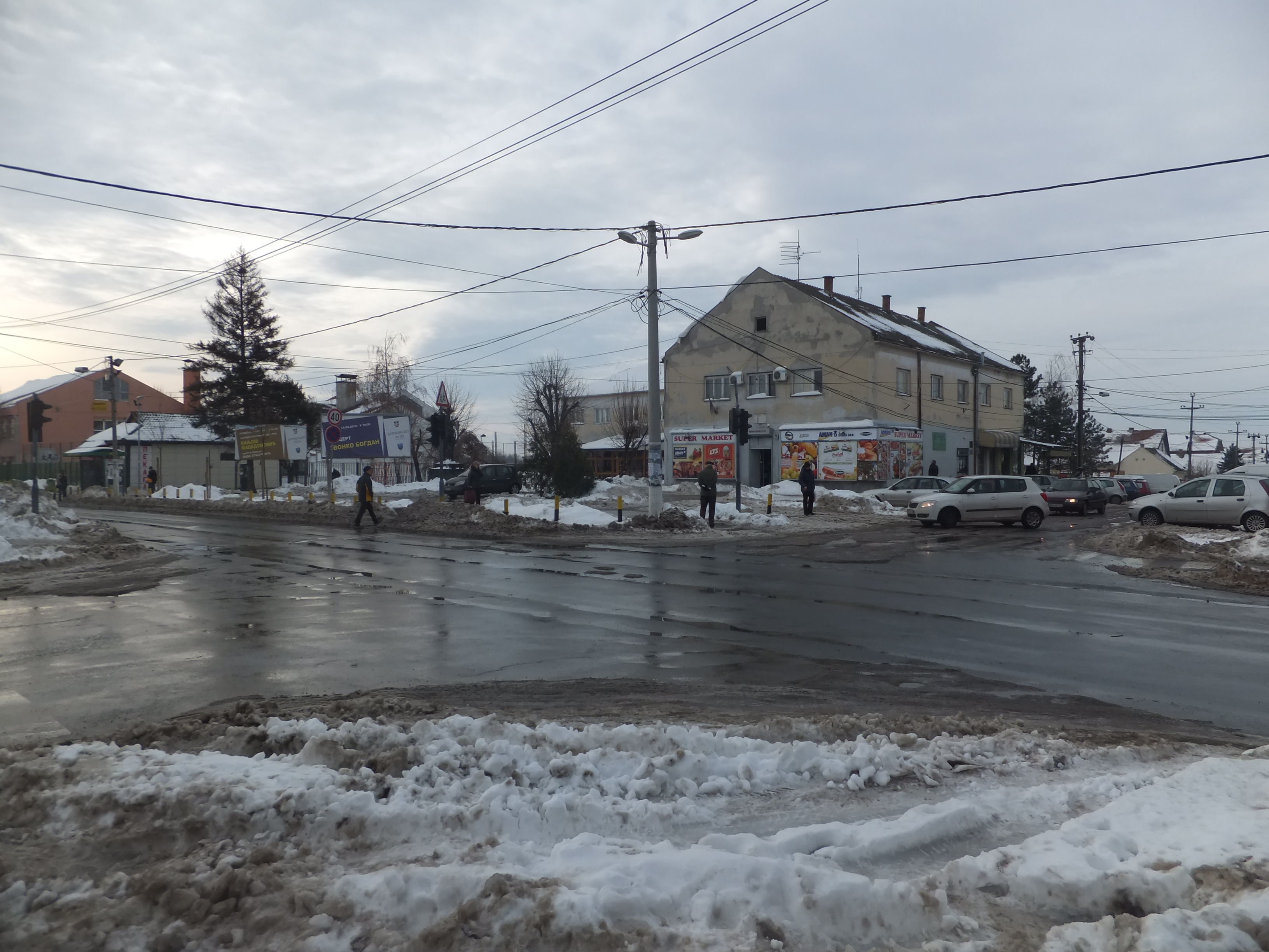 Dobanovci town center